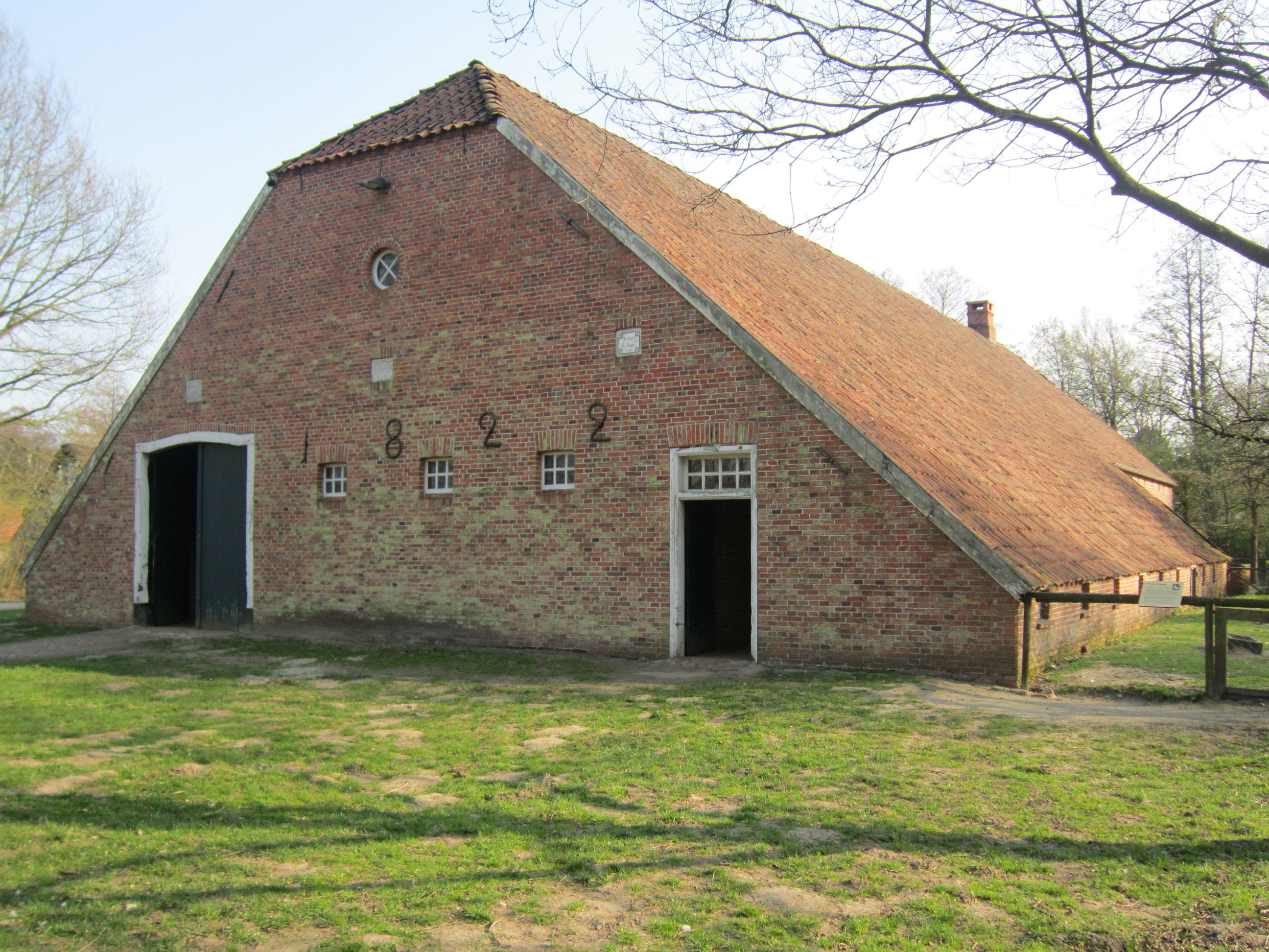 East frisian style "Gulfhaus" in the "Museumsdorf Cloppenburg"